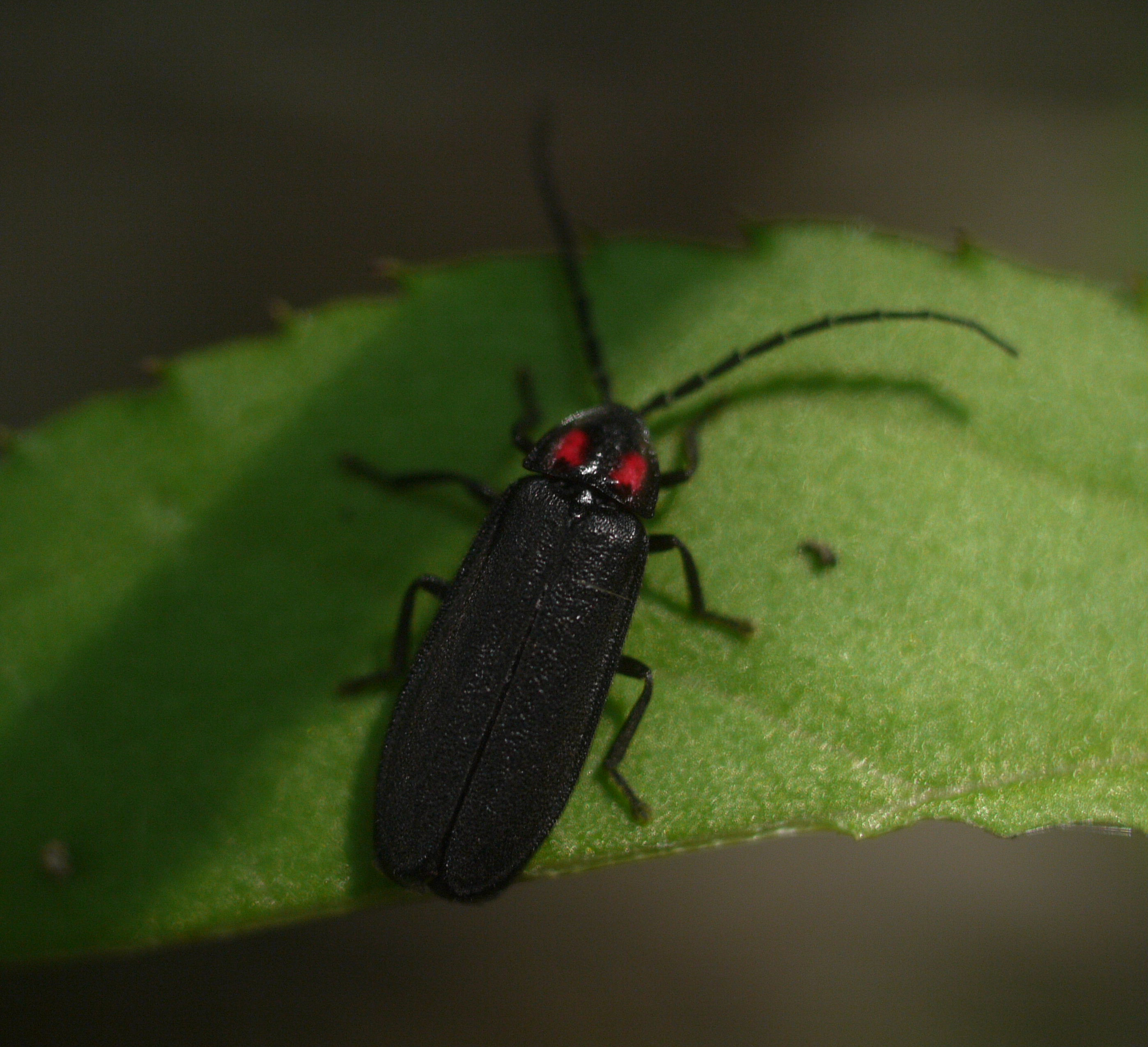 Lucidinia biplagiata Tanabe City, Japan